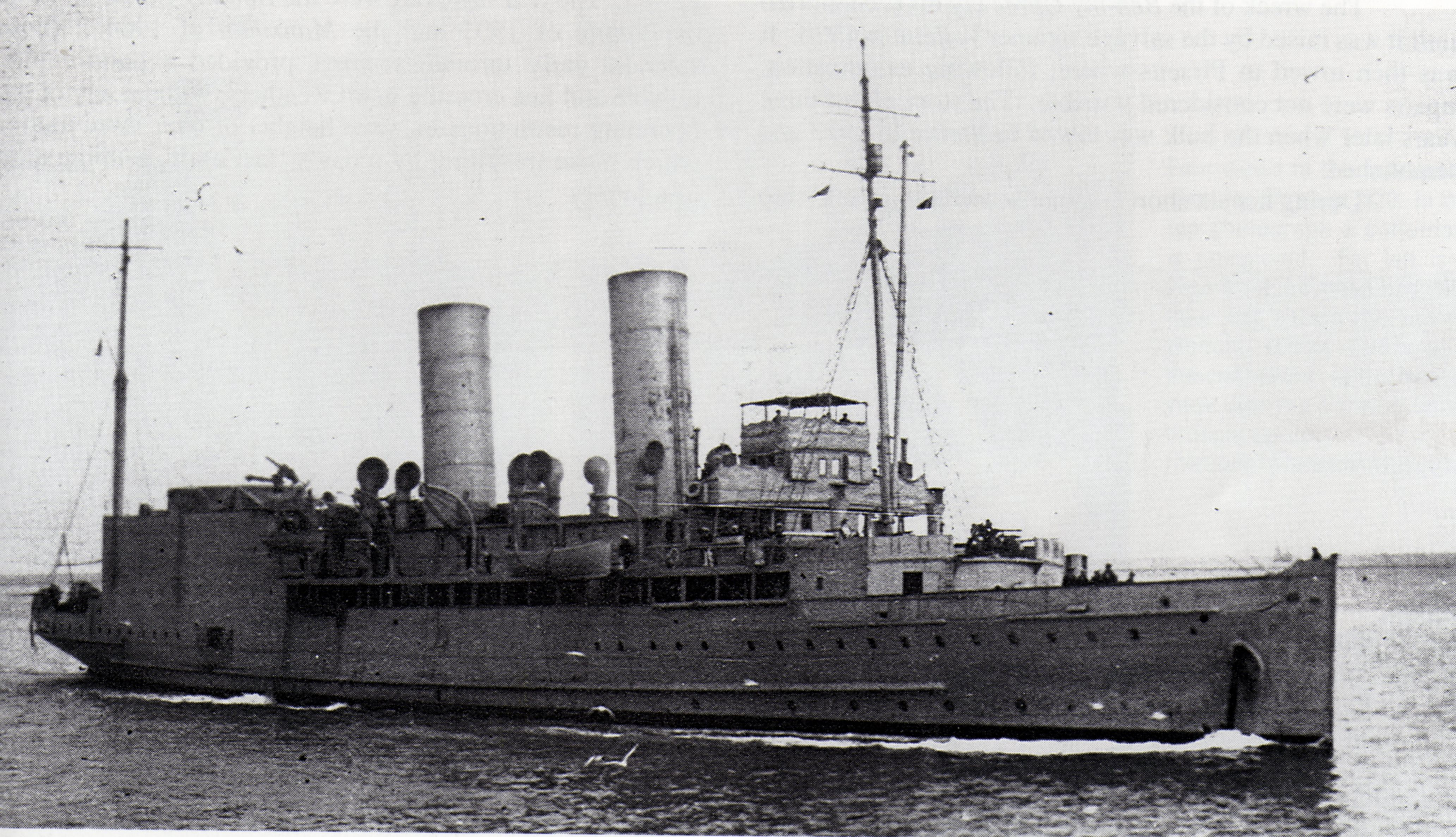 HMS Ben-my-Chree (cica 1915)